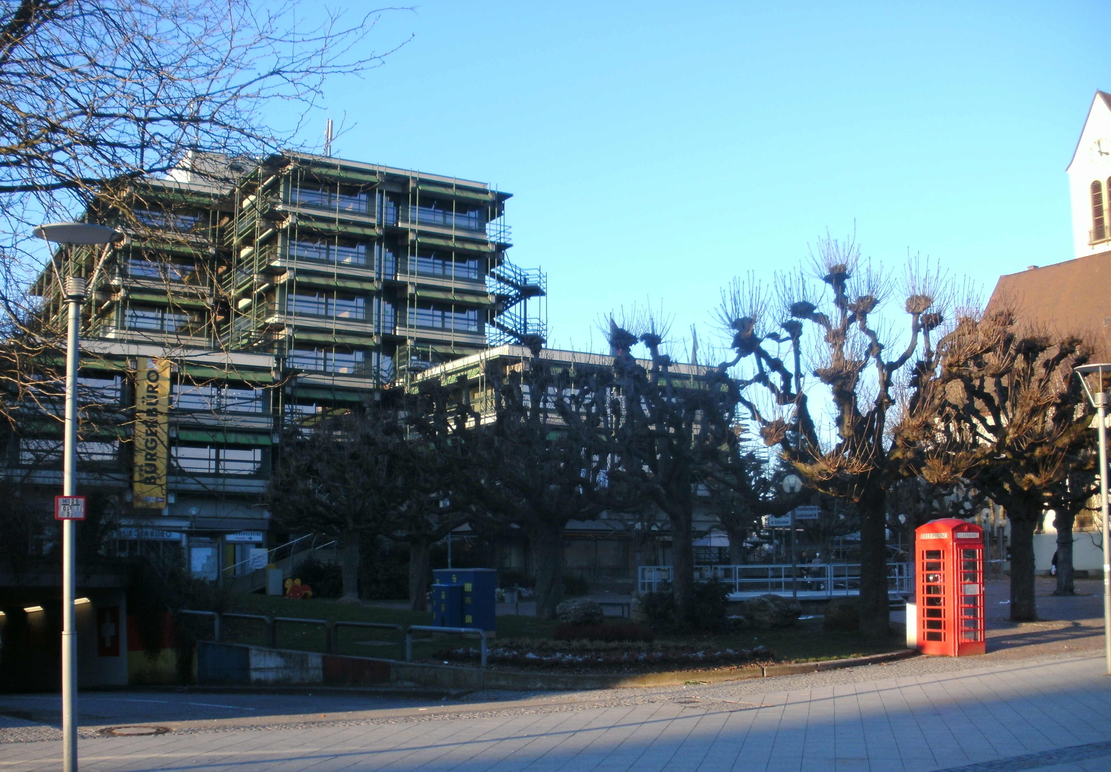 Church square with chestnut park and town hall in Rheinfelden, built in 1975 - 1979 according to plans by the native Karsauer architect Herbert Schaudt and Lothar Reichart. The red British phone booth (model K6) is a gift from the Welsh partner community Barry / Vale of Glamorgan. On the right side of the picture the protestant Christuskirche.